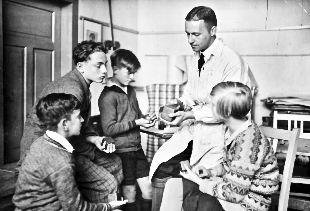 Ludwig Hirschfeld-Mack (1893–1965) with pupils at Geelong Grammar school in Geelong, Victoria, Australia